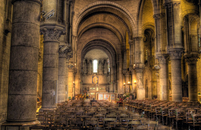 Saint-Étienne church of briare